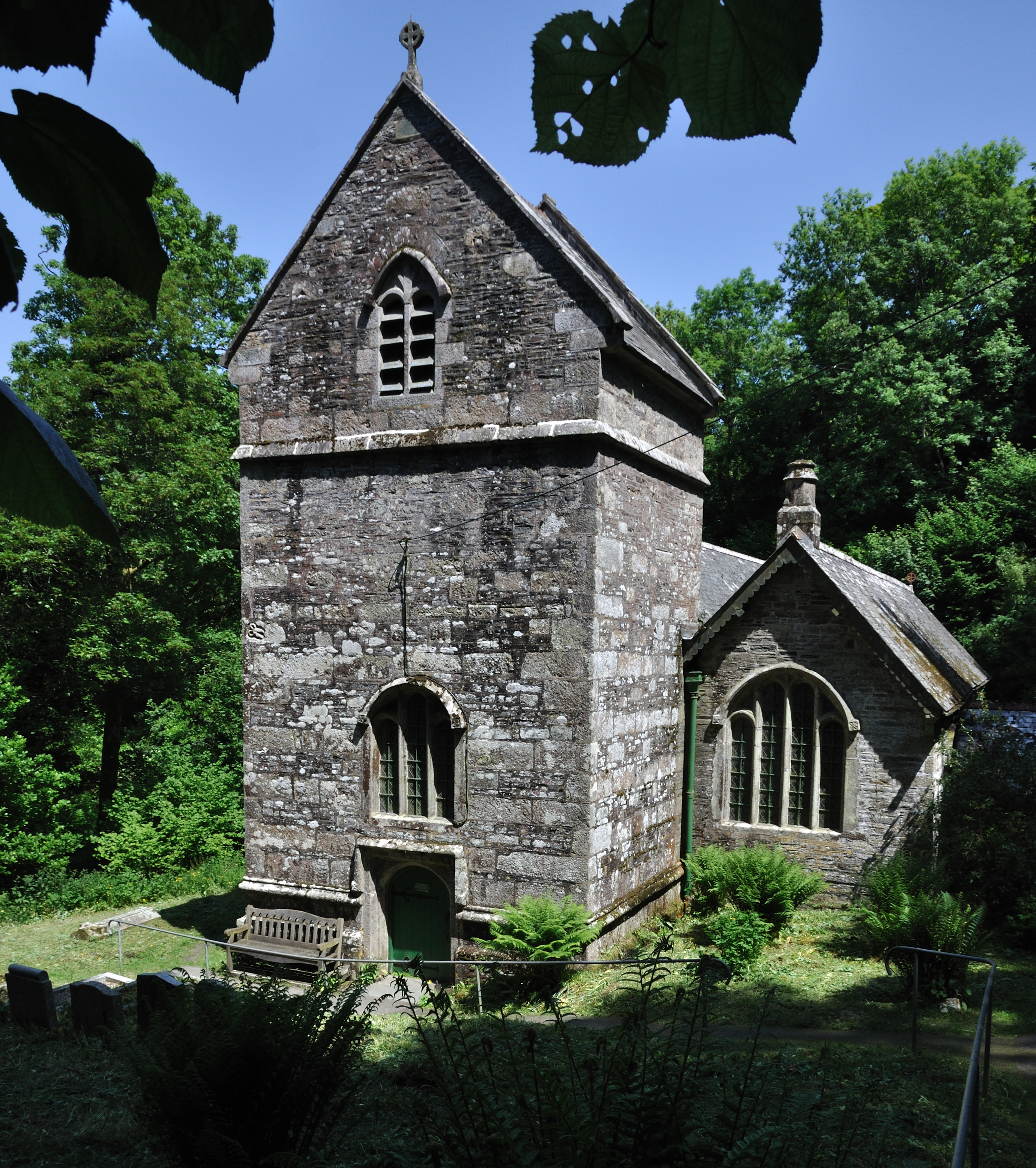 Saint Merteriana Church, Minster, Cornwall, also known as Minster Church. It is situated in a hidden valley near Boscastle